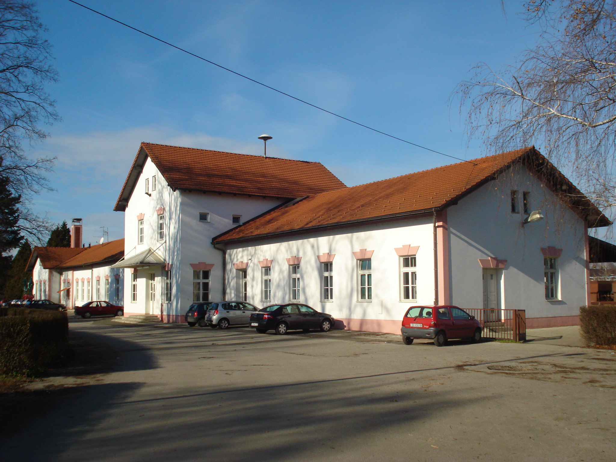 Čakovec railway station, Medjimurje County, northern Croatia - south side